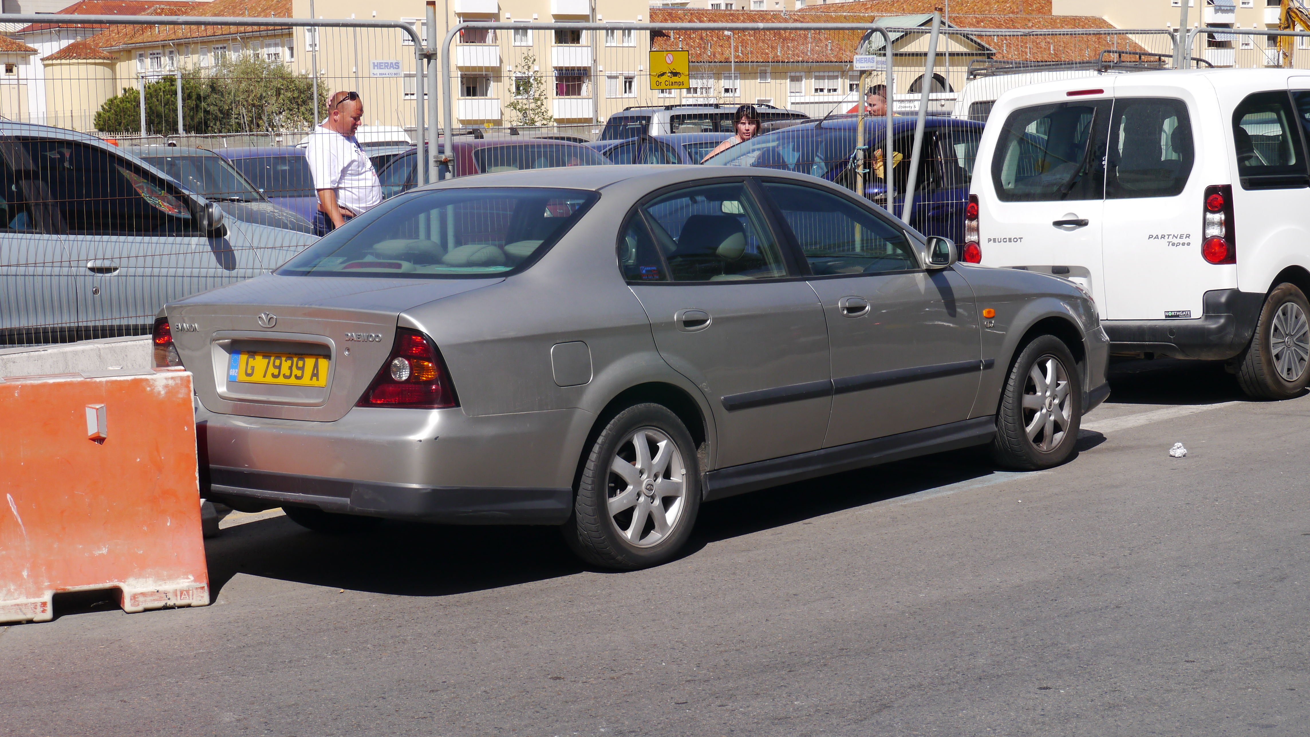 Gibraltar (UK territory), Spain.